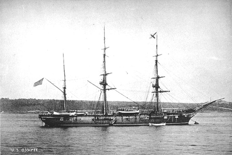 Removed caption read: Photo # NH 45370 USS Ossipee